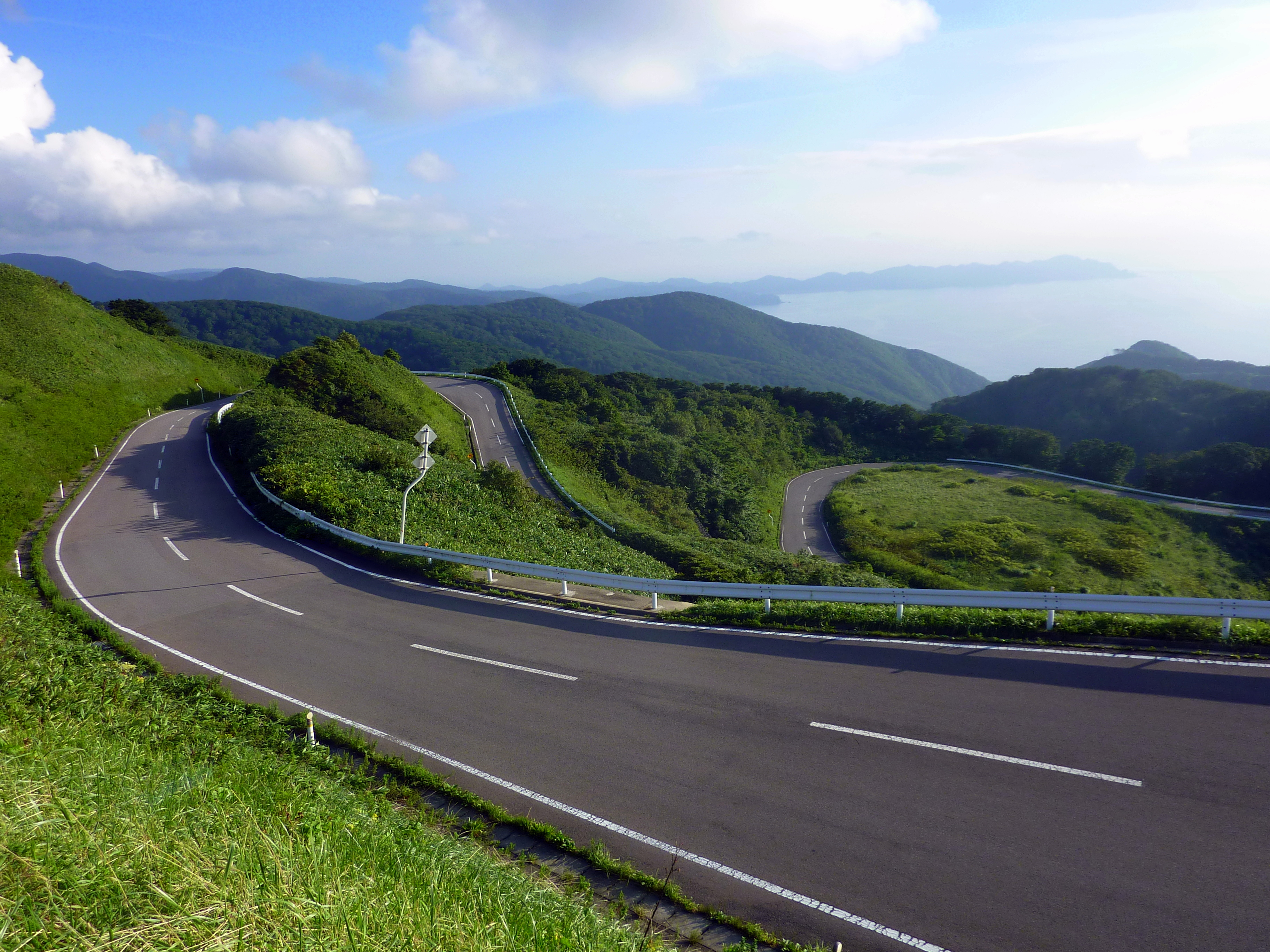 Tatsudomari Line along the Sea of Japan coast